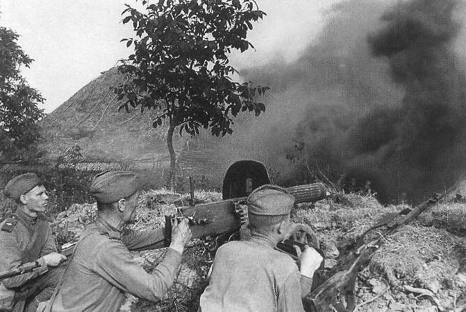 At Kursk, the Red Army committed more than a million men, more than 3,275 tanks and 25,000 guns and mortars. Soviet riflemen like these had to hold off "tank fists" and German assault infantry supported by dive-bombers and heavy artillery fire. Soviet losses at Kursk amounted to 177,847 men killed, missing or wounded.